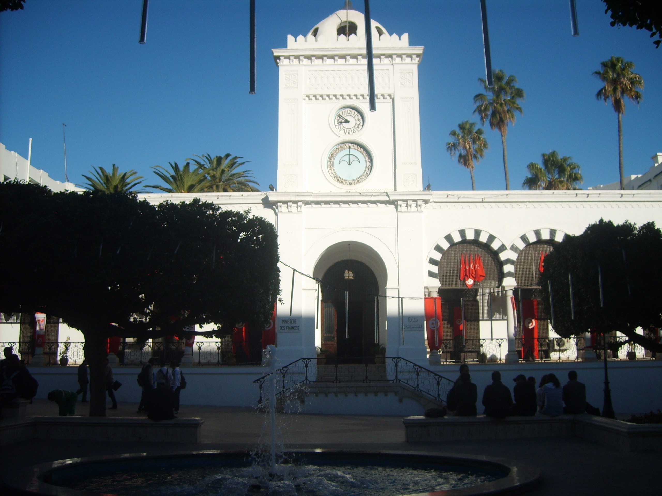 Ministry of Finance is his building in Tunisz.